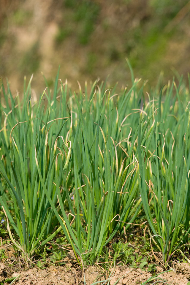 Welsh onion grown in Guizhou China.